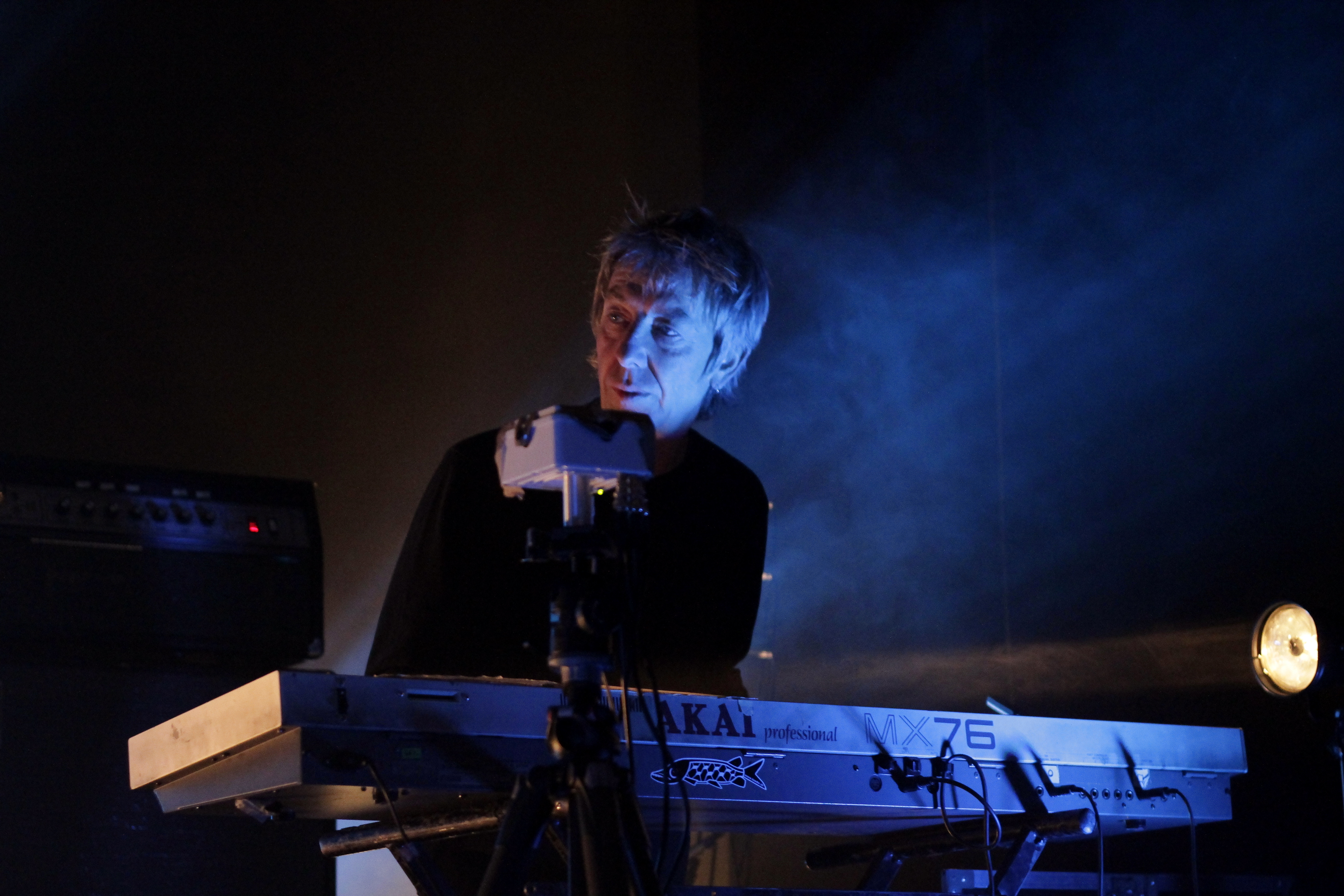 Al Monod performing with The Young Gods in 2011 at Palác Akropolis